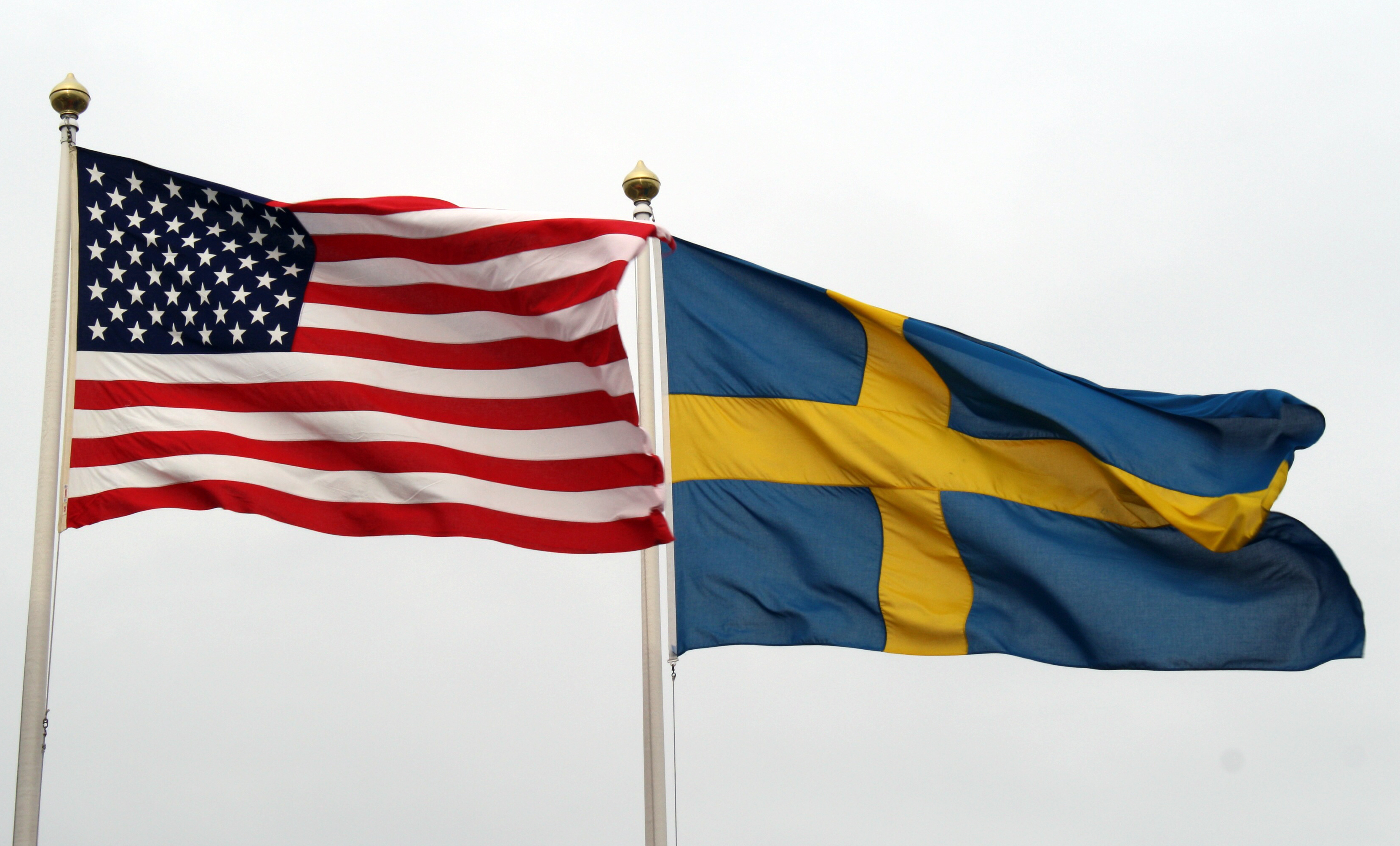 U.S. and Swedish flags fly alongside each other on May 14, 2013 as U.S. Secretary of State John Kerry arrives in Stockholm, Sweden, for meetings with Swedish officials. [State Department photo / Public Domain]